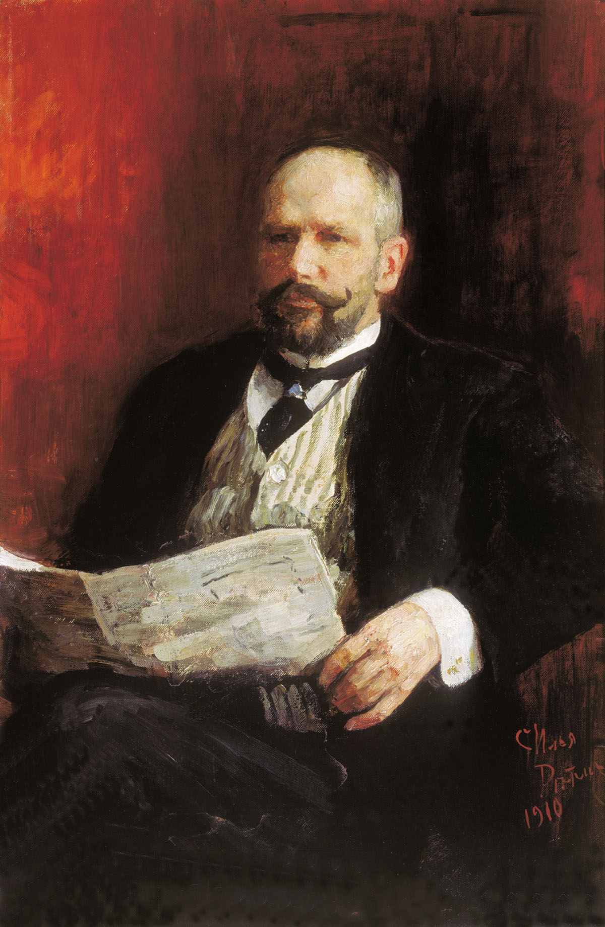 Portrait of Prime Minister Pyotr Arkadyevich Stolypin